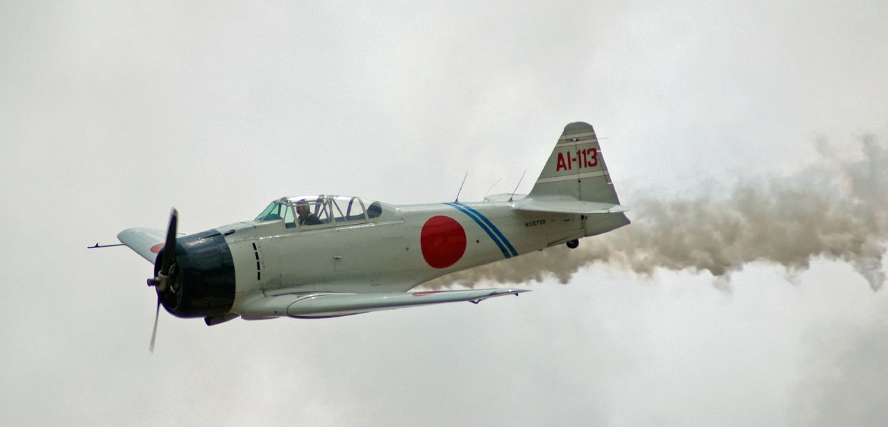 T-6 Texan Trainer aircraft post conversion to resemble a Mitsubishi Zero Fighter.